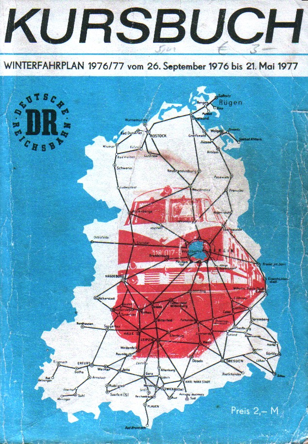 Timetable of the German Railways, Winter 1976